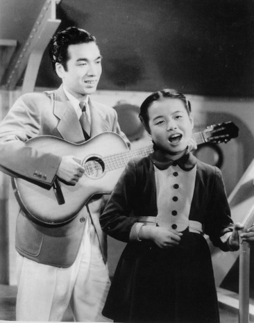 Hibari Misora and Haruo Oka in 1950 Japanese movie Akogare no Hawaii kōro